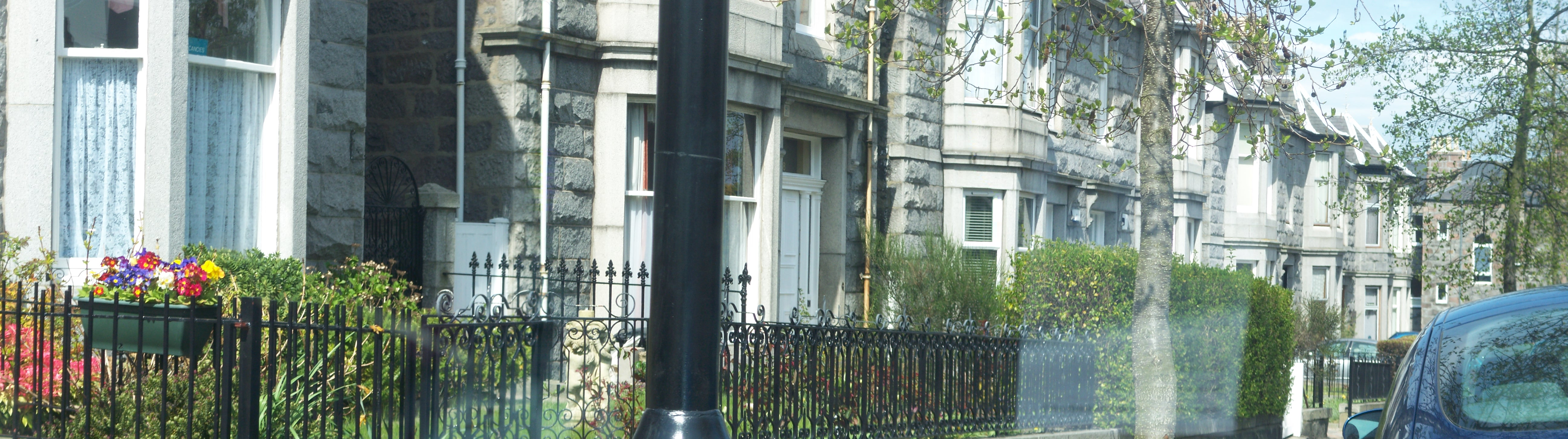 Beautiful view of Bon Accord Street, Ferryhill, Aberdeen